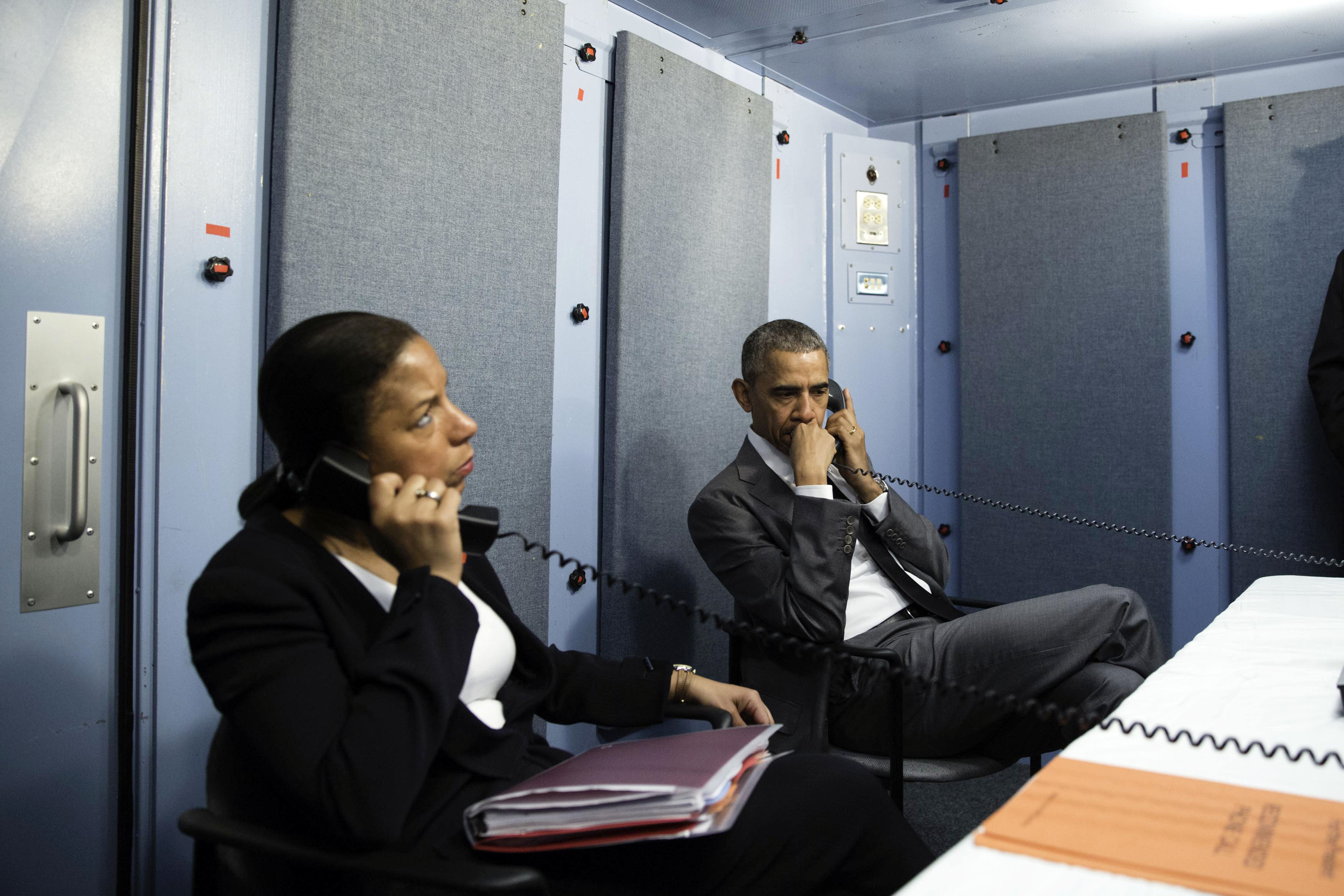 President Barack Obama and National Security Advisor Susan E. Rice talk on the phone with Homeland Security Advisor Lisa Monaco to receive an update on a terrorist attack in Brussels, Belgium. The President made the call from the residence of the U.S. Chief of Mission in Havana, Cuba, March 22, 2016. (Official White House Photo by Pete Souza)